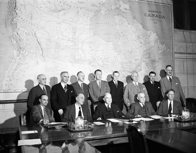 Delegation which negotiated the entry of Newfoundland into Confederation, Railway Committee Room, Centre Block, Parliament Buildings. (Front - l.-r.): J.R. Smallwood, Hon. F. Gordon Bradley, Rt. Hons. W.L. Mackenzie King, Louis St. Laurent. (Rear, l.-r.): P.W. Crummey, Rev. Lester Burry, T.G.W. Ashbourne, Hon. D.C. Abbott, G.F. Higgins, J.J. McCann, C.H. Ballem, Hon. H.F.G. Bridges